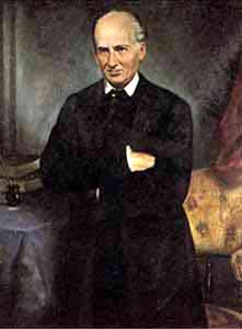 Watercolor of Mariano Ospina Rodríguez, President of the Granadine Confederation, now Colombia.